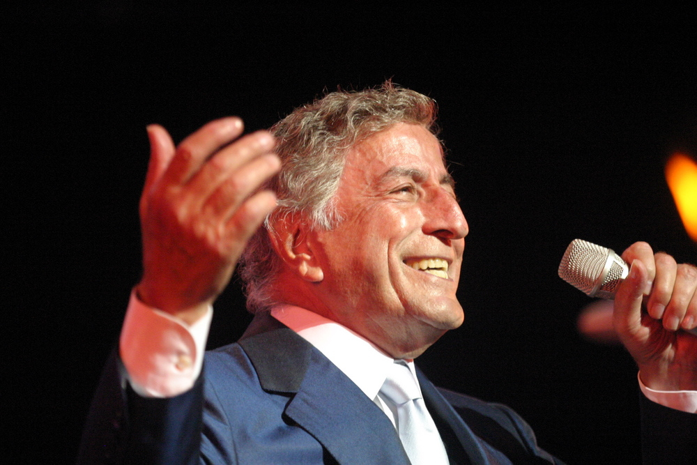 Tony Bennett with microphone in hand. His performance was photographed in 2003.